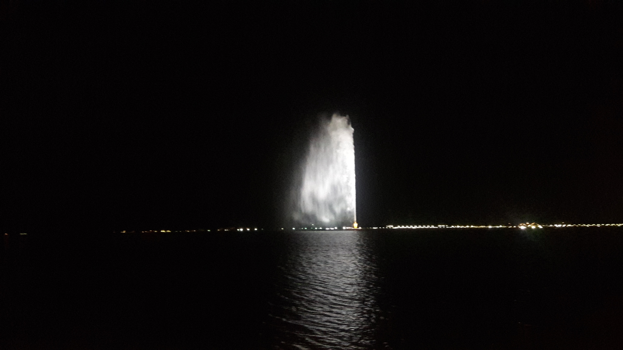 King Fahd's Fountain